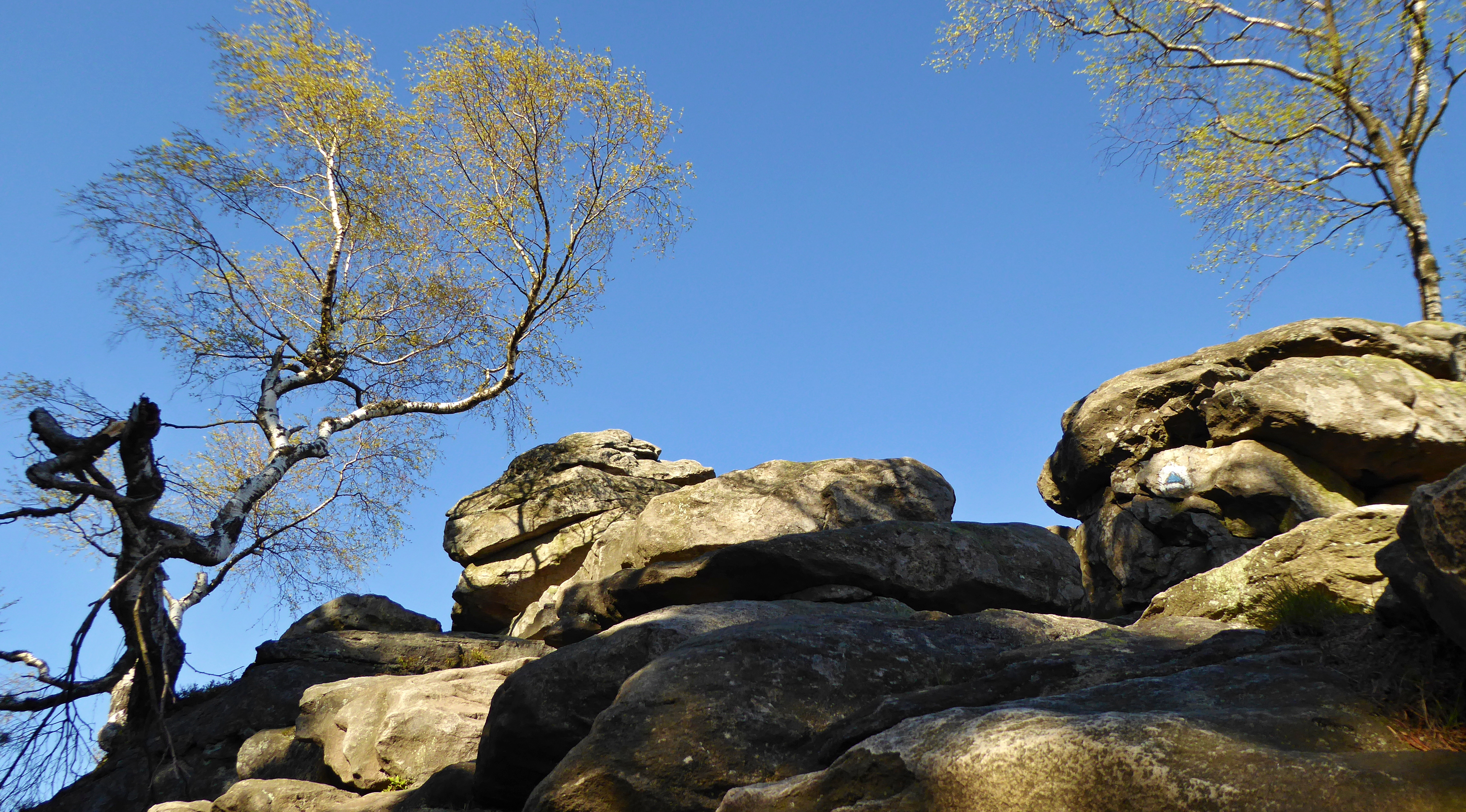 Rocky summit with a geographical name (oronym) "Nine Rocks" and with a altitude of 836.3 m is the highest point of the "Devítiskalské" Highlands (in photo shot on the left). Photo location: Czechia, Vysočina Region, villages Křižánky.